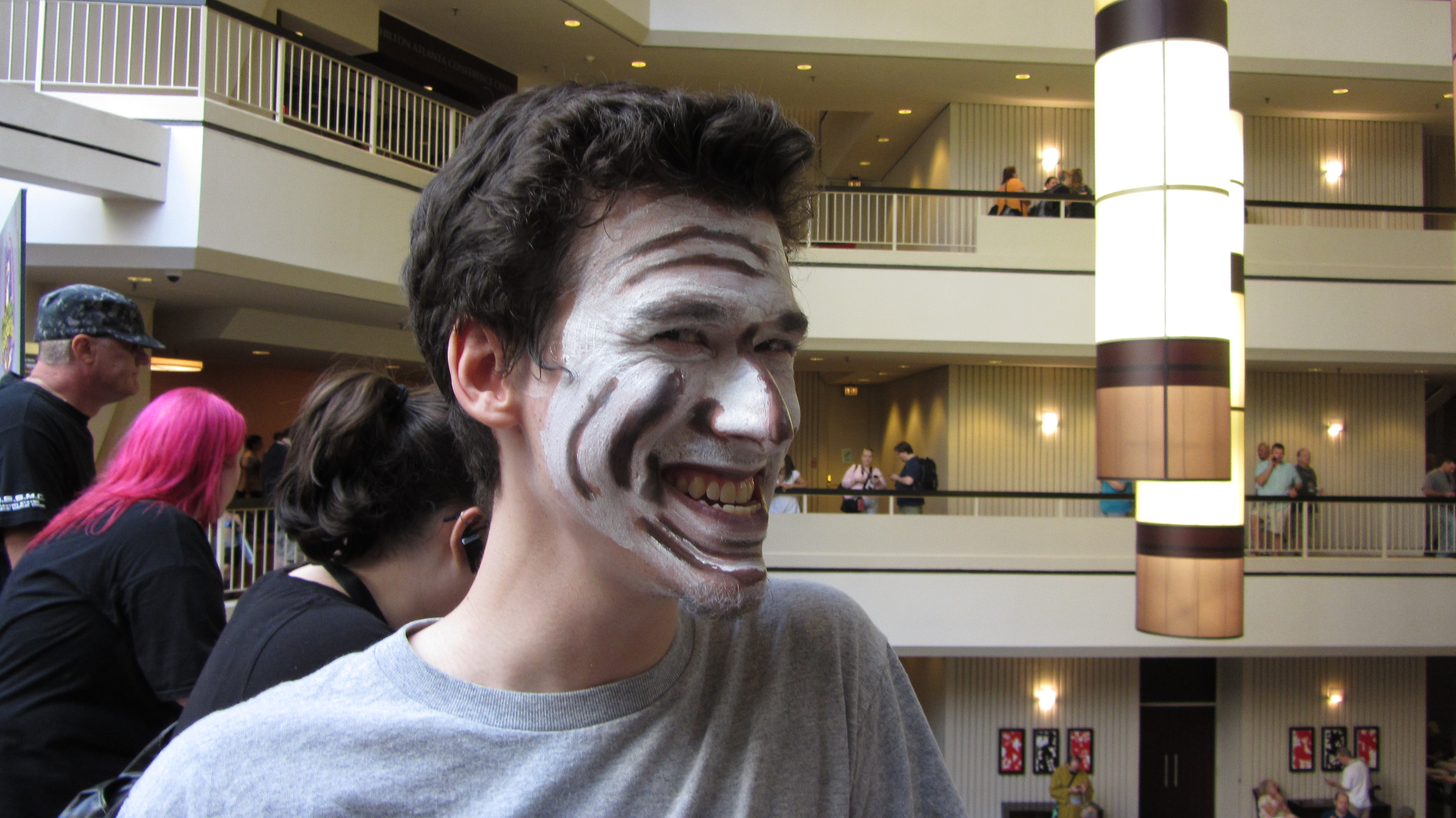 Man cosplaying as Trollface at Dragoncon 2011.